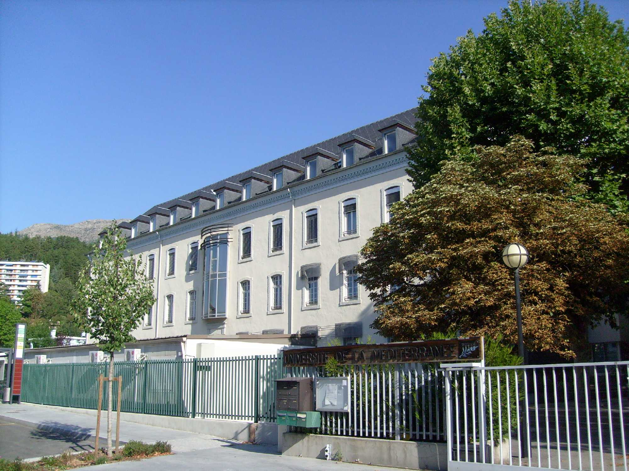 Université de la Méditerranée, university center of Gap( Hautes-Alpes, France).